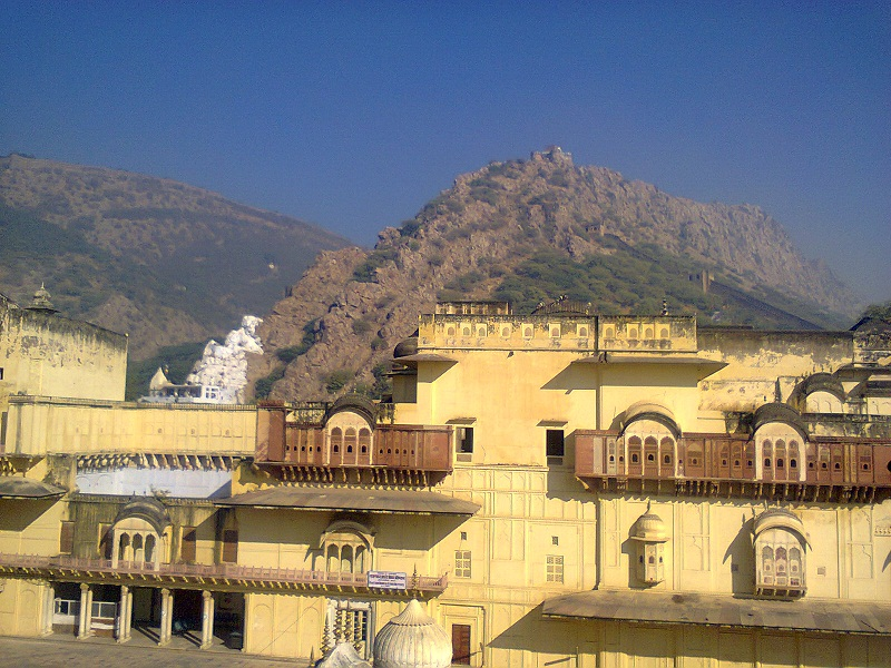 Pic of museum at Alwar,Rajasthan near aravalli range